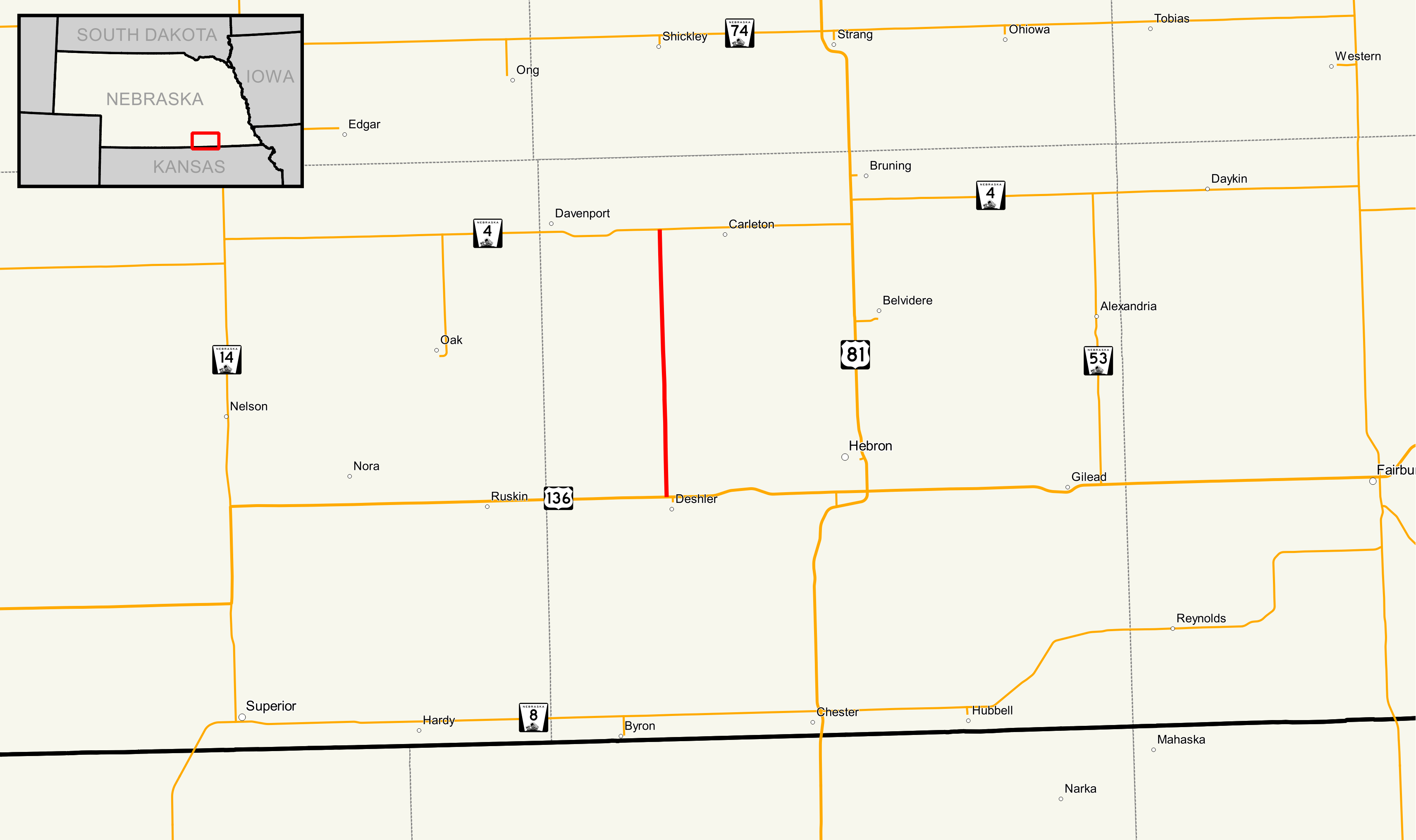 Map of Nebraska Highway 5 Data Sources: Nebraska Highways - - Dec 2016 Nebraska County Boundaries - - Dec 2016 Nebraska City Boundaries - - Dec 2016 This PNG graphic was created with QGIS